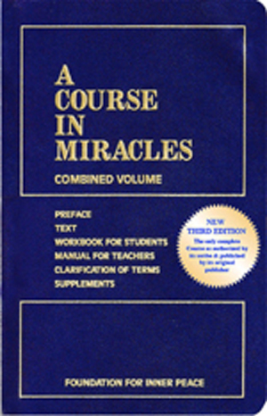 Cover of ACIM Third Edition